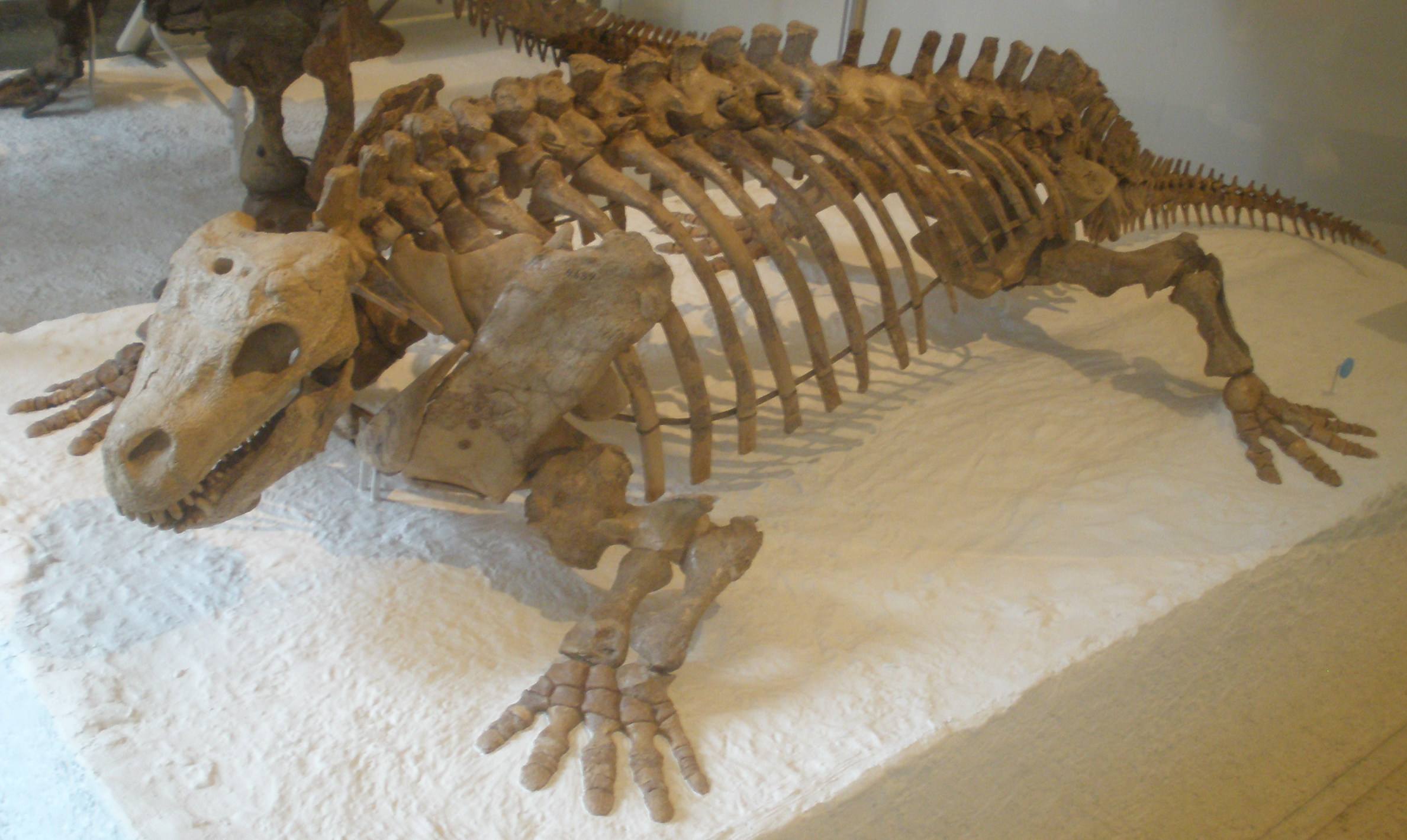 Vertebrae of Diadectes phaseolinus, a fossil tetrapod